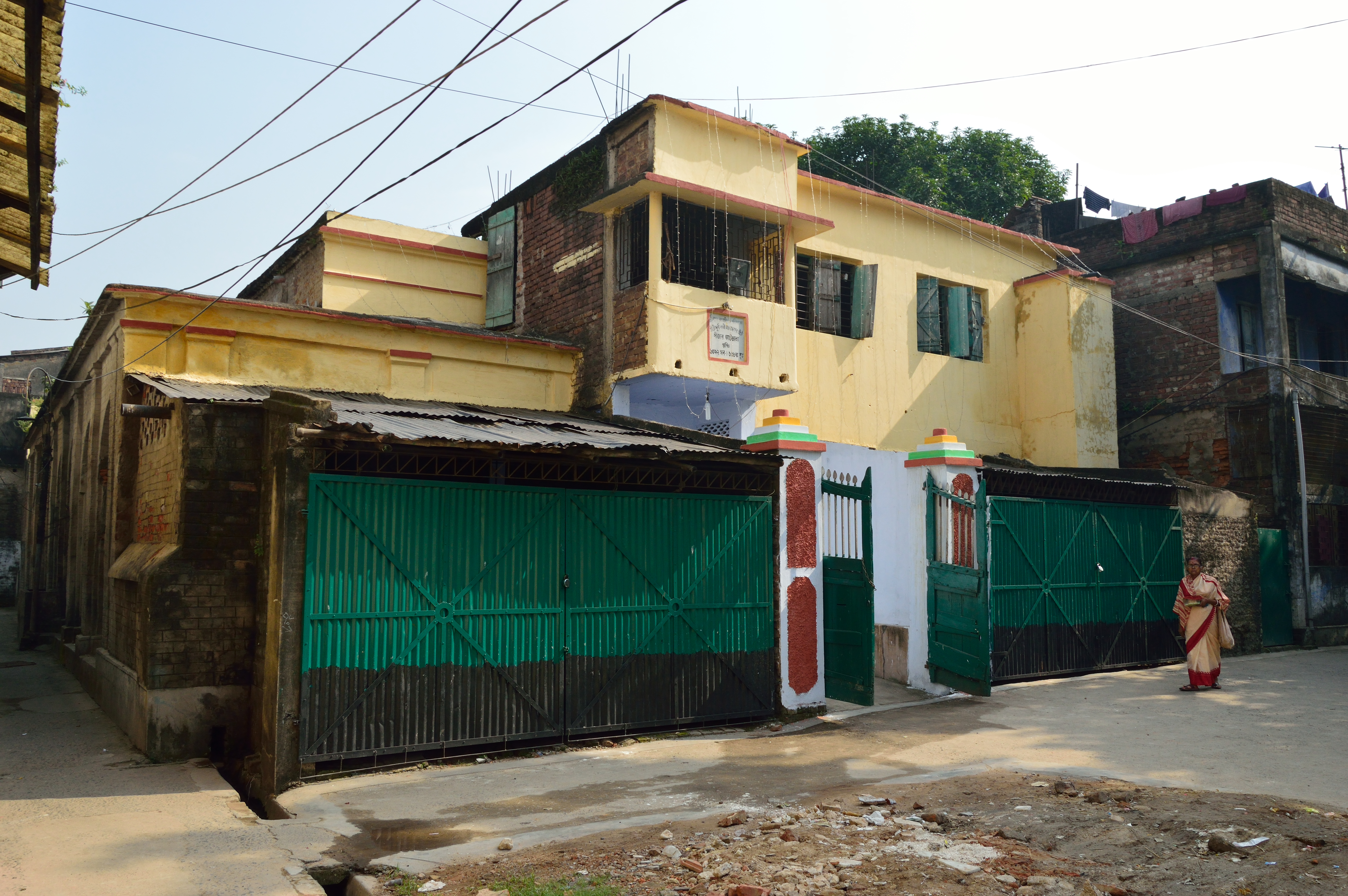 Photographed in greater Kolkata, India.